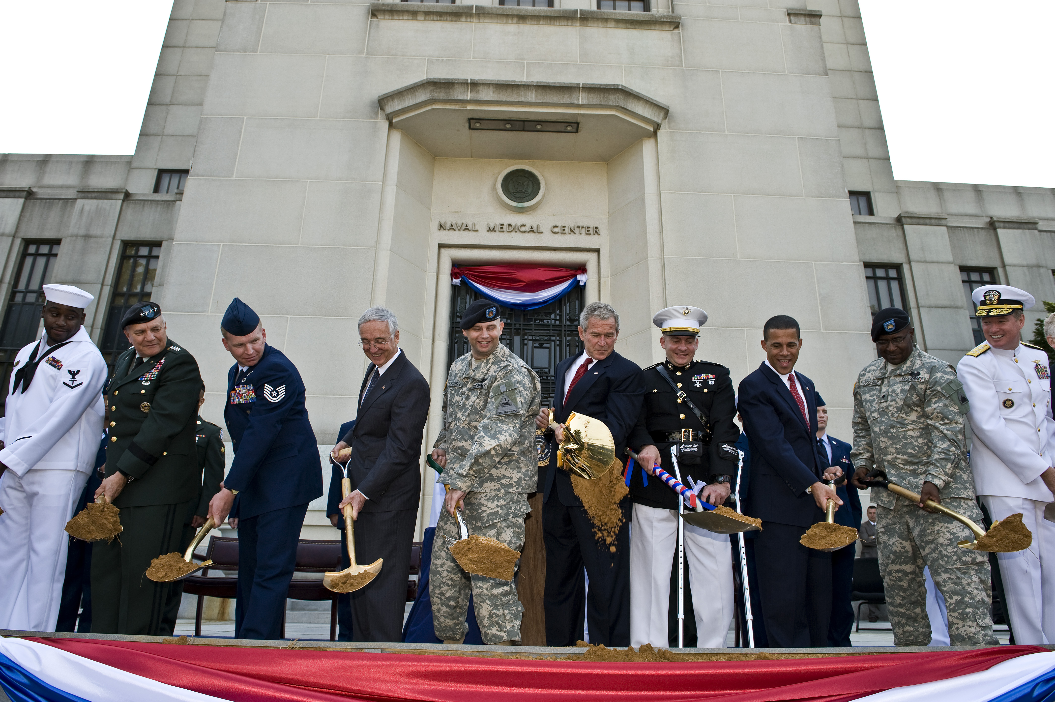 BETHESDA, Md. (July 3, 2008) President of the United States George W. Bush and other Department of Defense officials break ground for the new Walter Reed National Military Medical Center during a ceremony at Bethesda Naval Hospital in Maryland July 3, 2008. U.S. Air Force photo by Tech. Sgt. Jerry Morrison (Released)